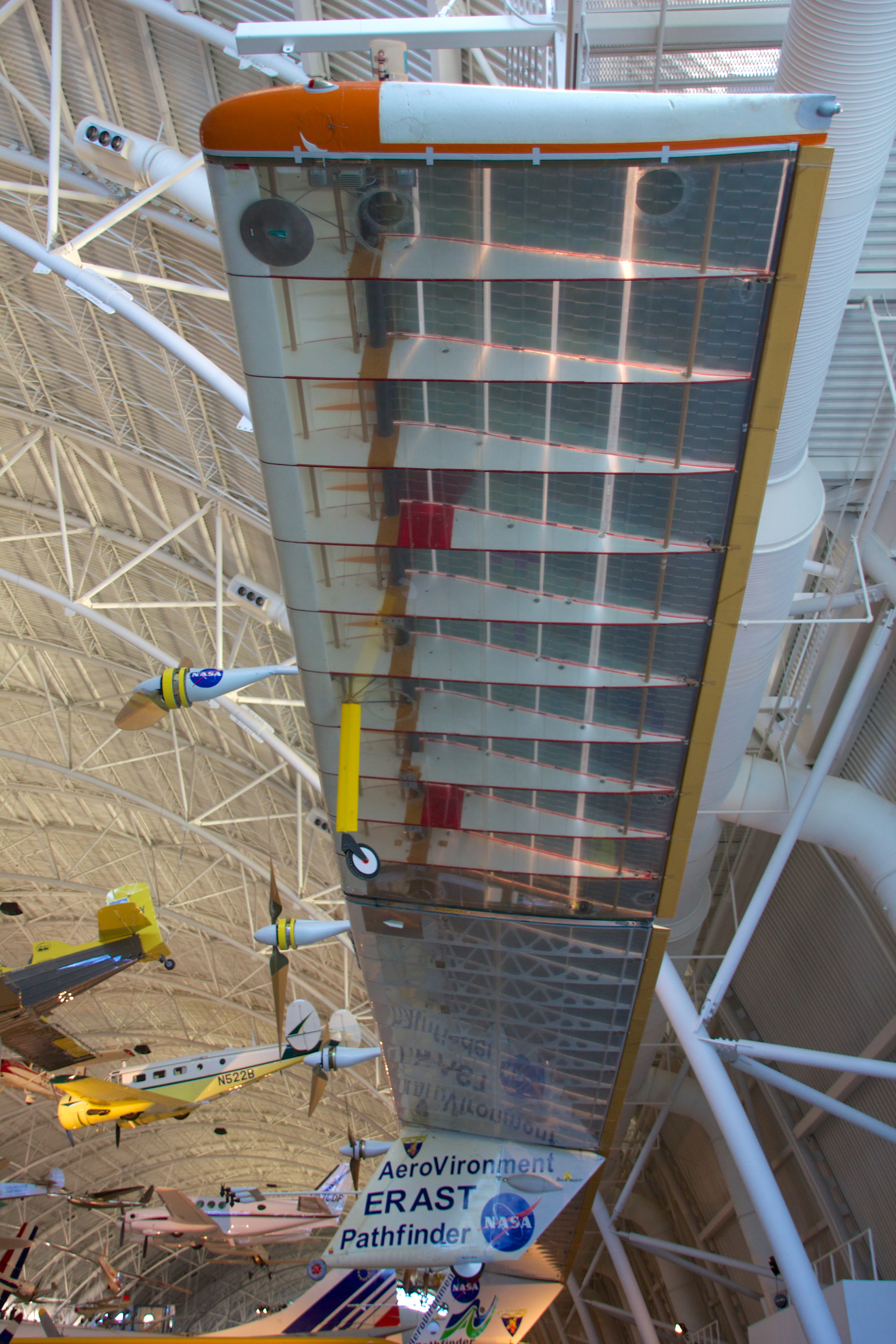 AeroVironment ERAST Pathfinder Plus. At the Steven F. Udvar-Hazy Center, Washington, D.C.